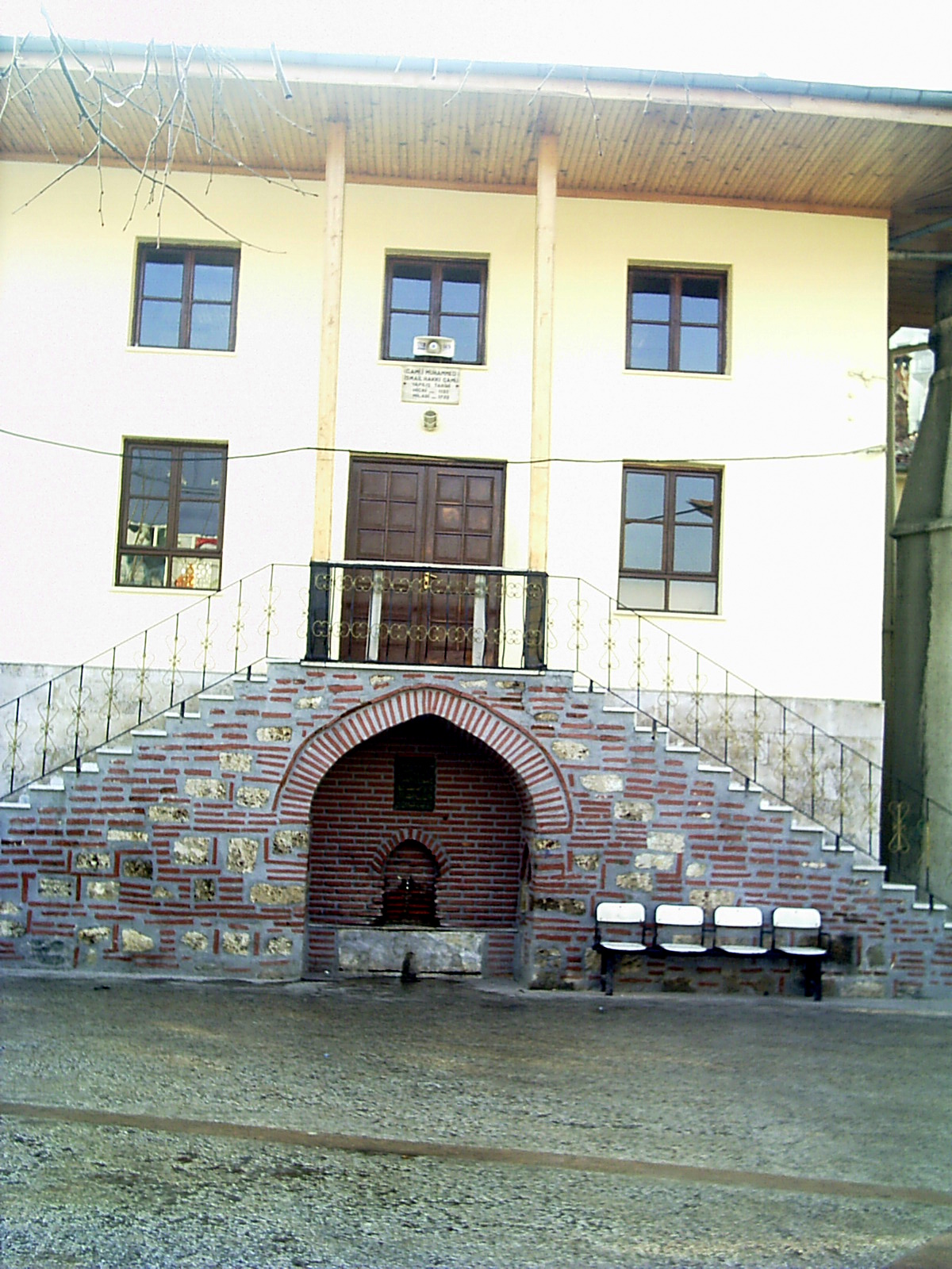 İsmail Hakkı left all his money (ten purses) to pay for the construction of this mosque: İsmail Hakkı Kuran Kursu, Tuzpazarı, İsmail Hakkı Cd., 16020 Osmangazi, Bursa, Turkey